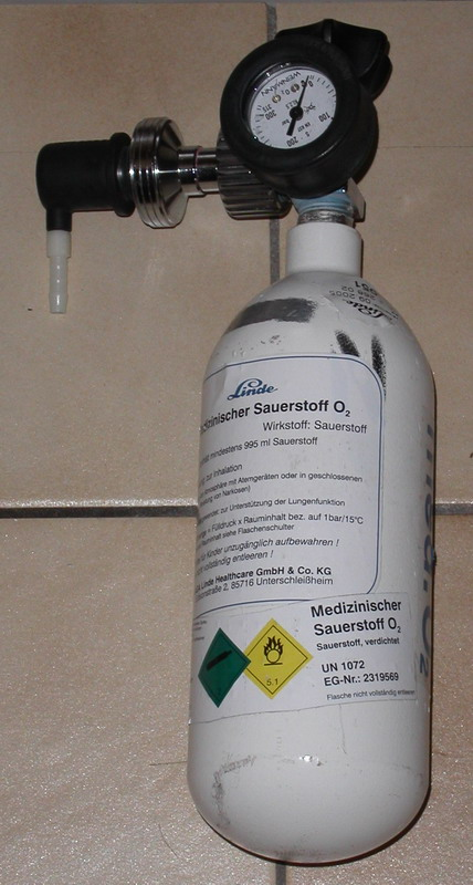 Bottle of oxygen / Sauerstoffflasche